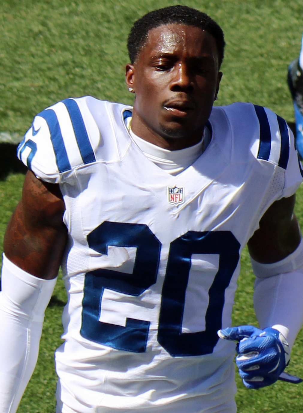 Darius Butler, a player on the National Football League.